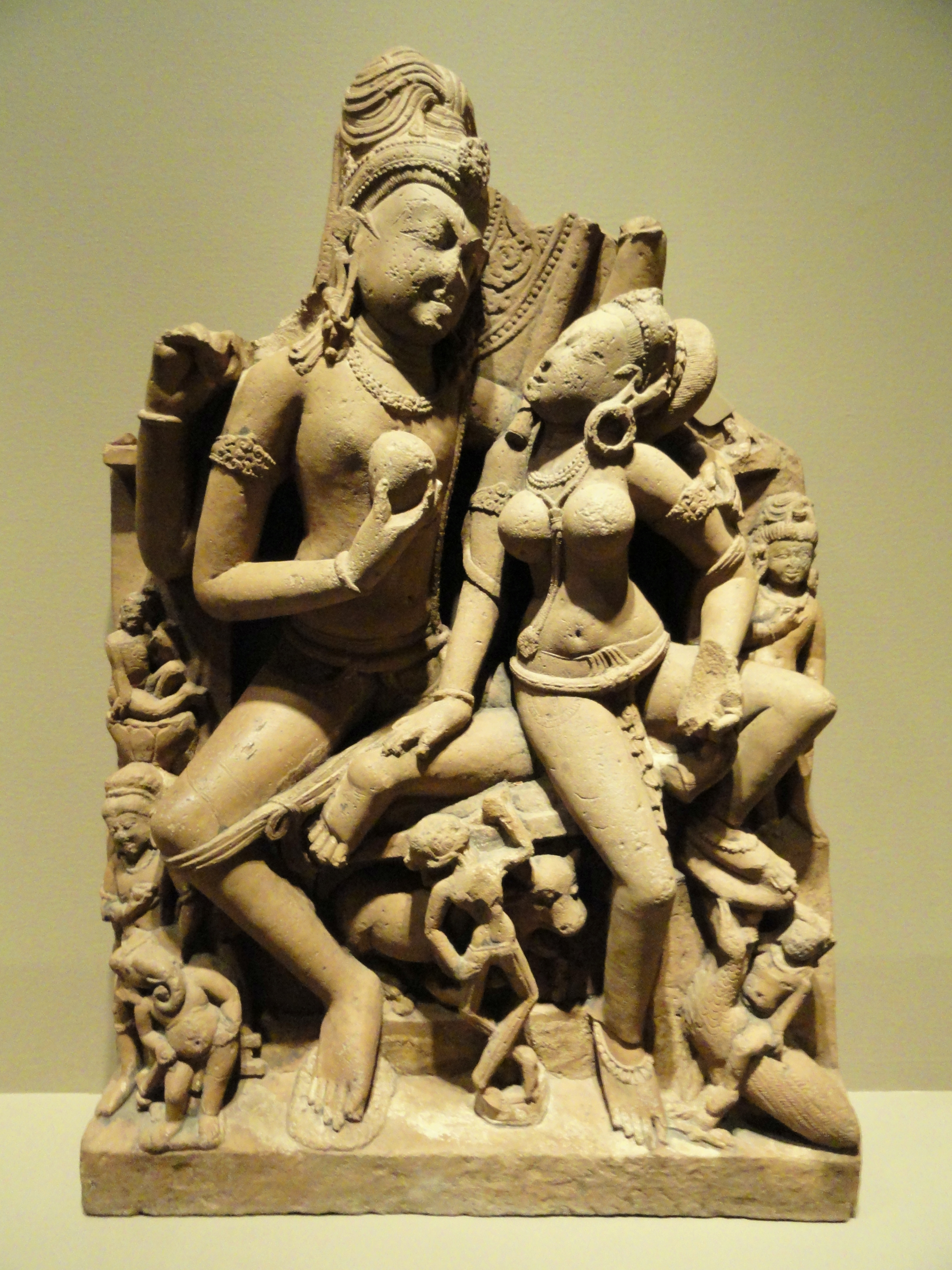 Exhibit in the Nelson-Atkins Museum of Art, Kansas City, Missouri. This artwork is old enough so that it is in the public domain, and the museum permitted photography without restriction. I took this photograph and release it into the public domain.